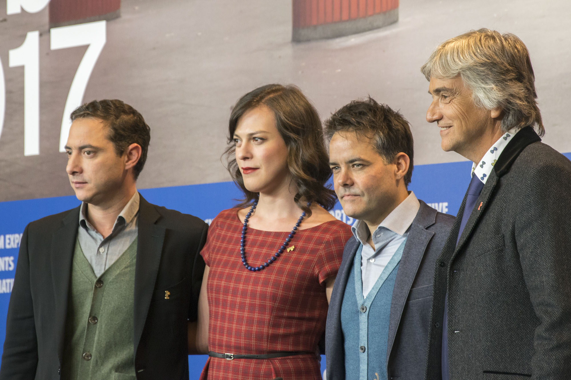 Juan de Dios Larrain, Daniela Vega, Sebastián Lelio, Francisco Reyes at the press screening of A Fantastic Woman at the 2017 Berlin International Film Festival